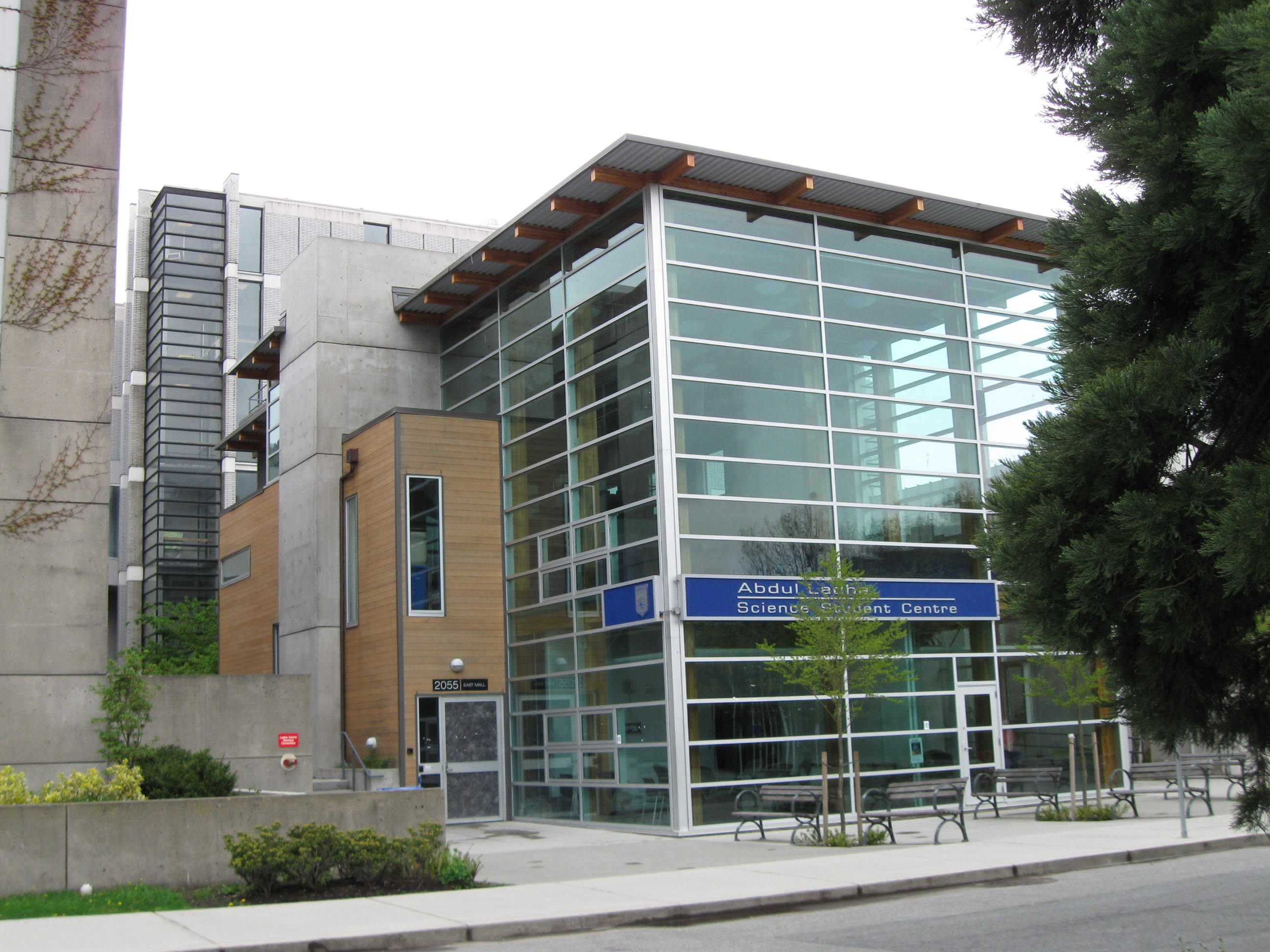 The Abdul Ladha Science Student Centre at 2055 East Mall in the Vancouver Point Grey campus of UBC in Canada.